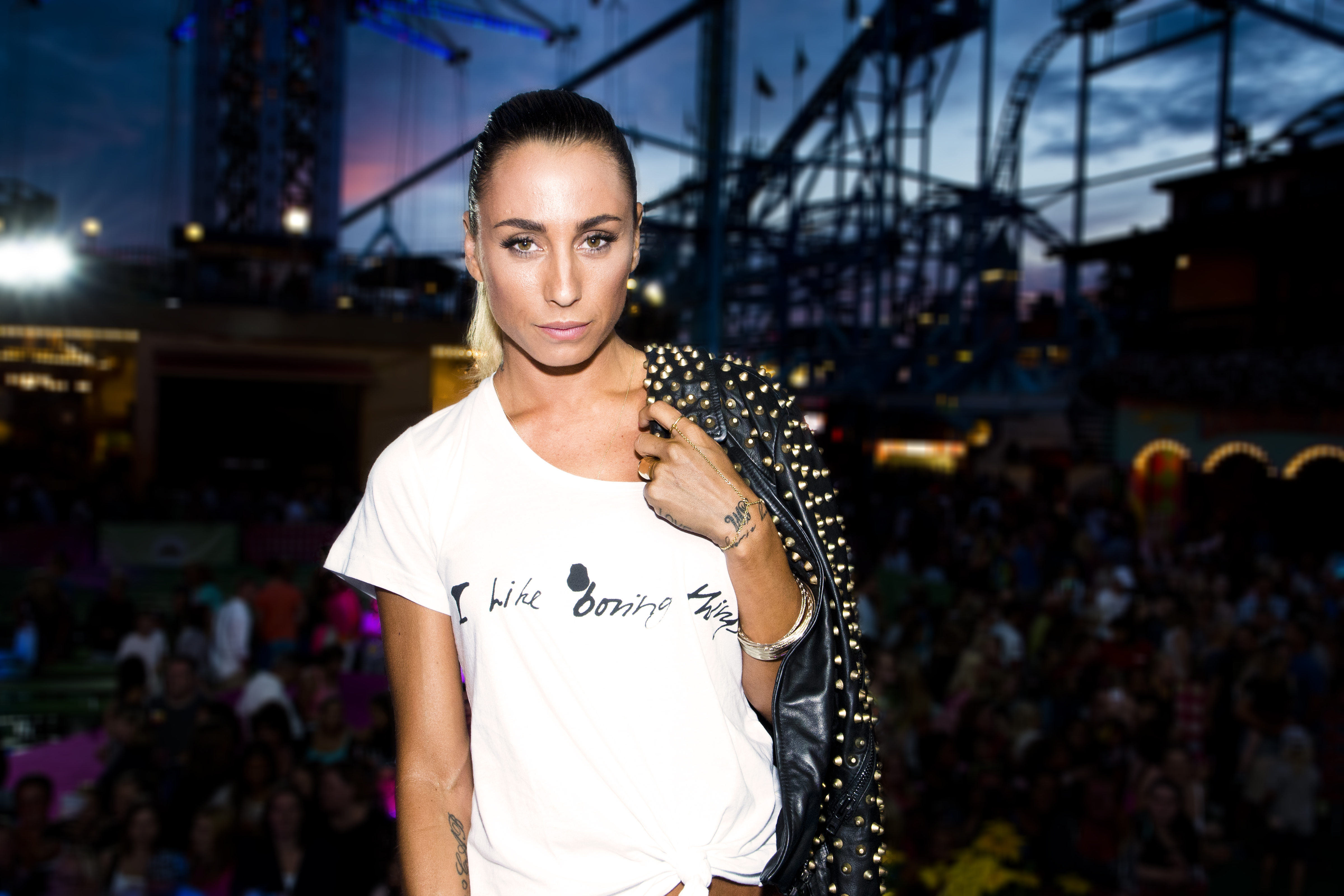 Medina visit Sommarkrysset in Stockholm at Gröna Lund